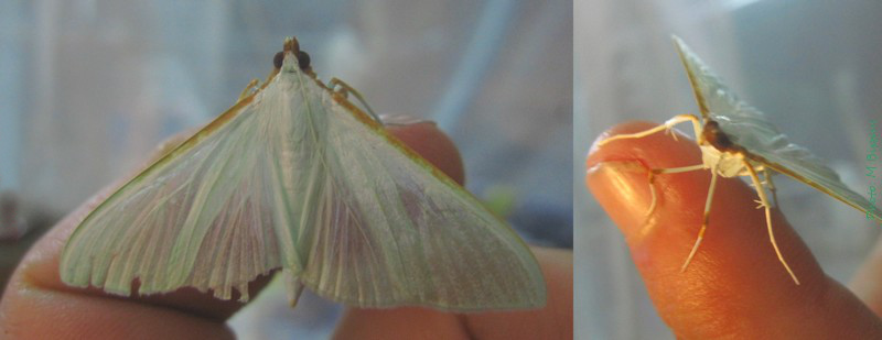 Stemorrhages sericea moth (Crambidae-Spilomelinae) (Drury, 1773) picture was taken in Réunion, wingspan: 35-36 mm